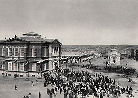 Opening of the Radischev Museum